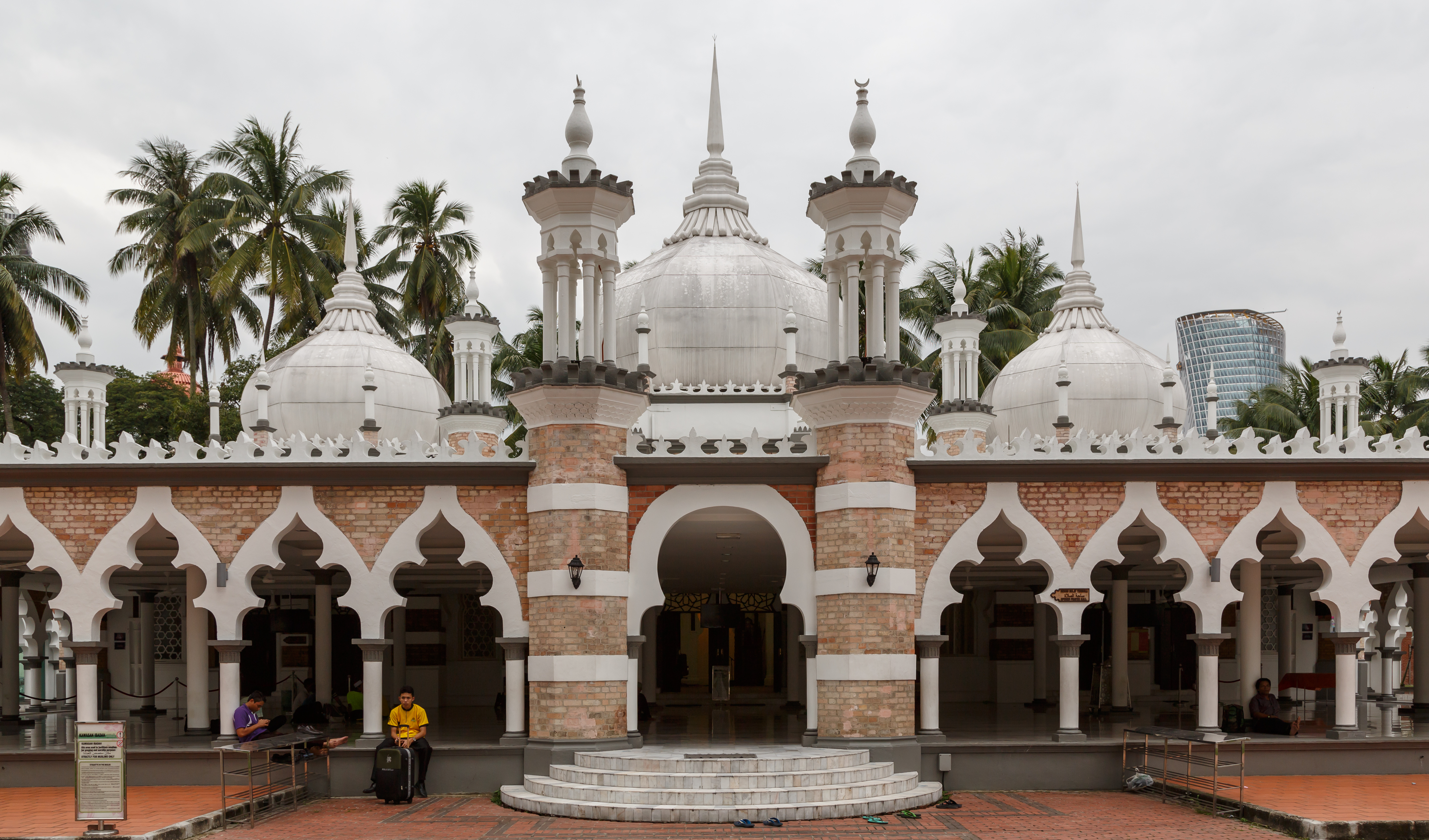 Kuala Lumpur, Malaysia: Masjid Jamek Kuala Lumpur